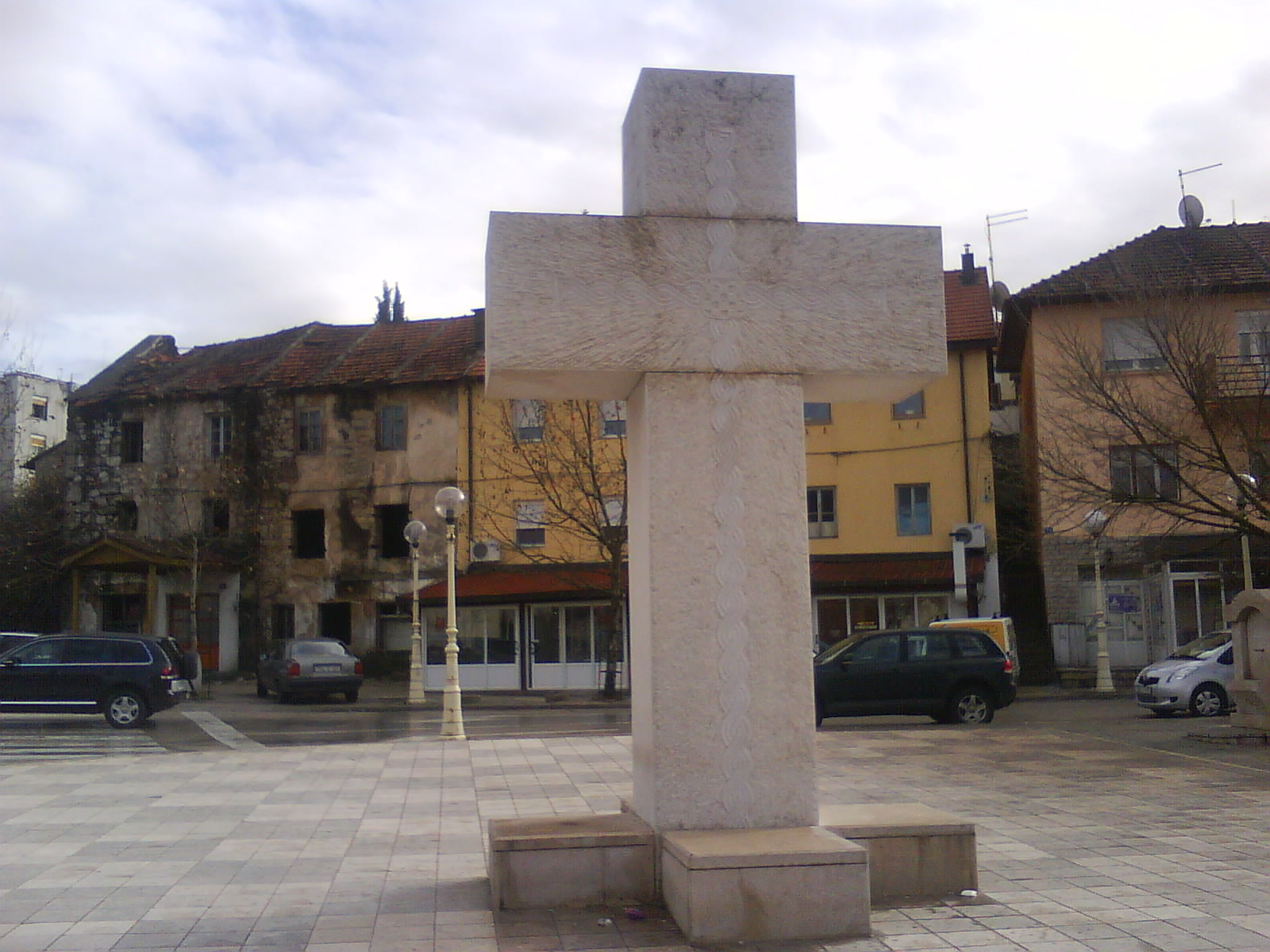 Cross in downtown of Široki Brig